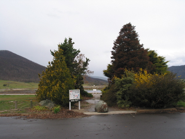 The former Orroral Valley space tracking station site, October 2003 (Darren Osborne)